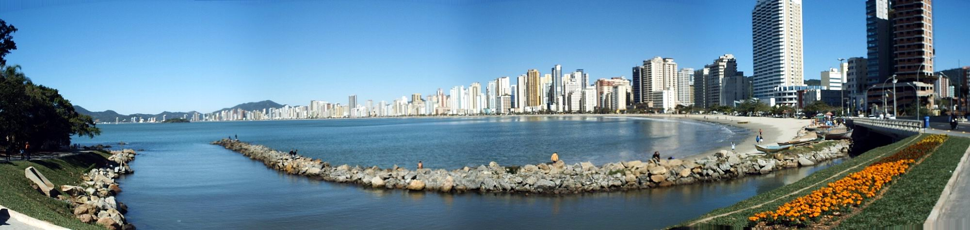 City of Balneário Camboriú, Santa Catarina, Brazil.Balneário Camboriú